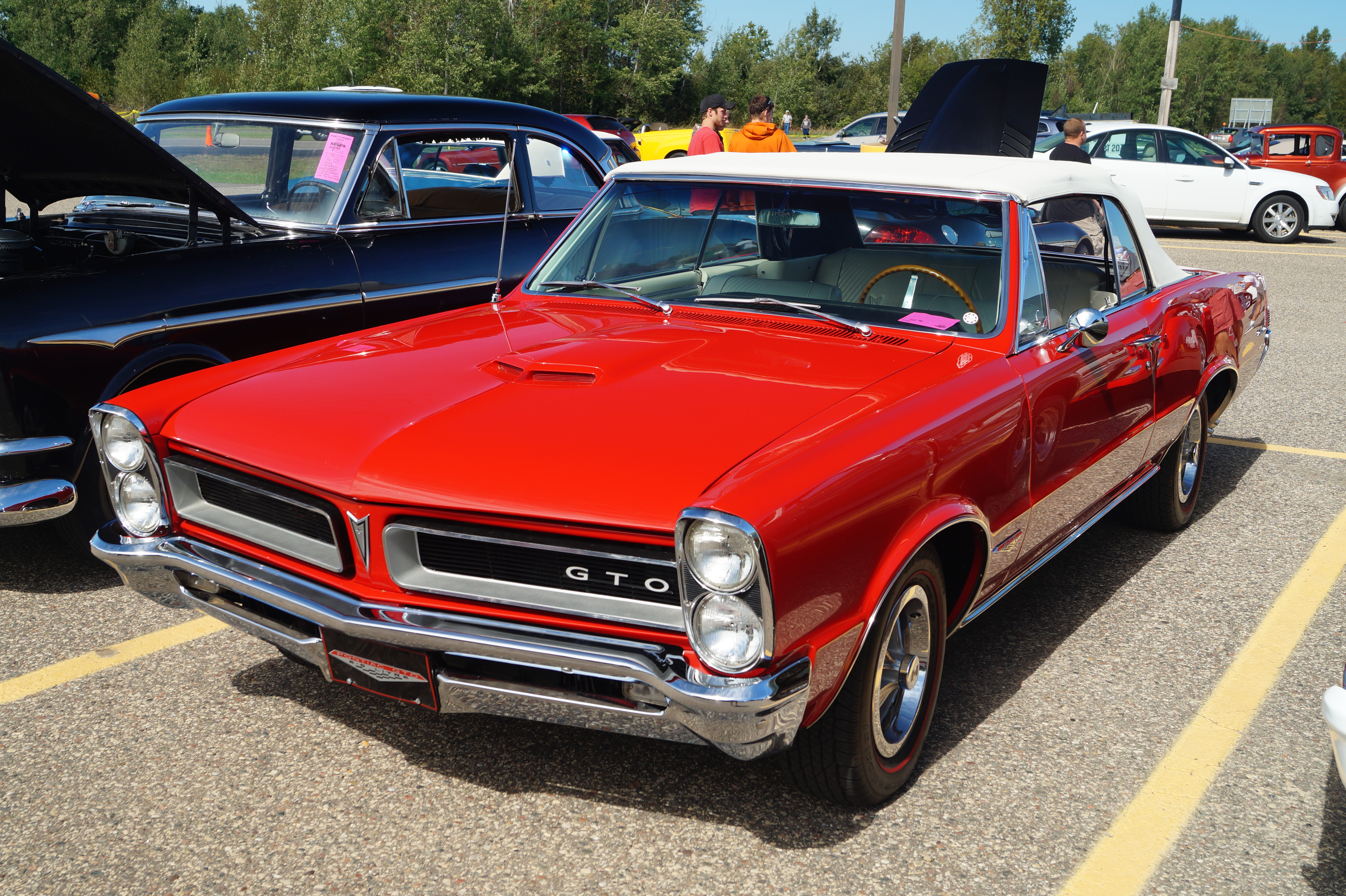 28th Annual Pig Roast & Car Show September 20, 2015 Northern Lights Car Club Blacksmith Lounge Hugo, Minnesota Click here for more car pictures at my Flickr site.